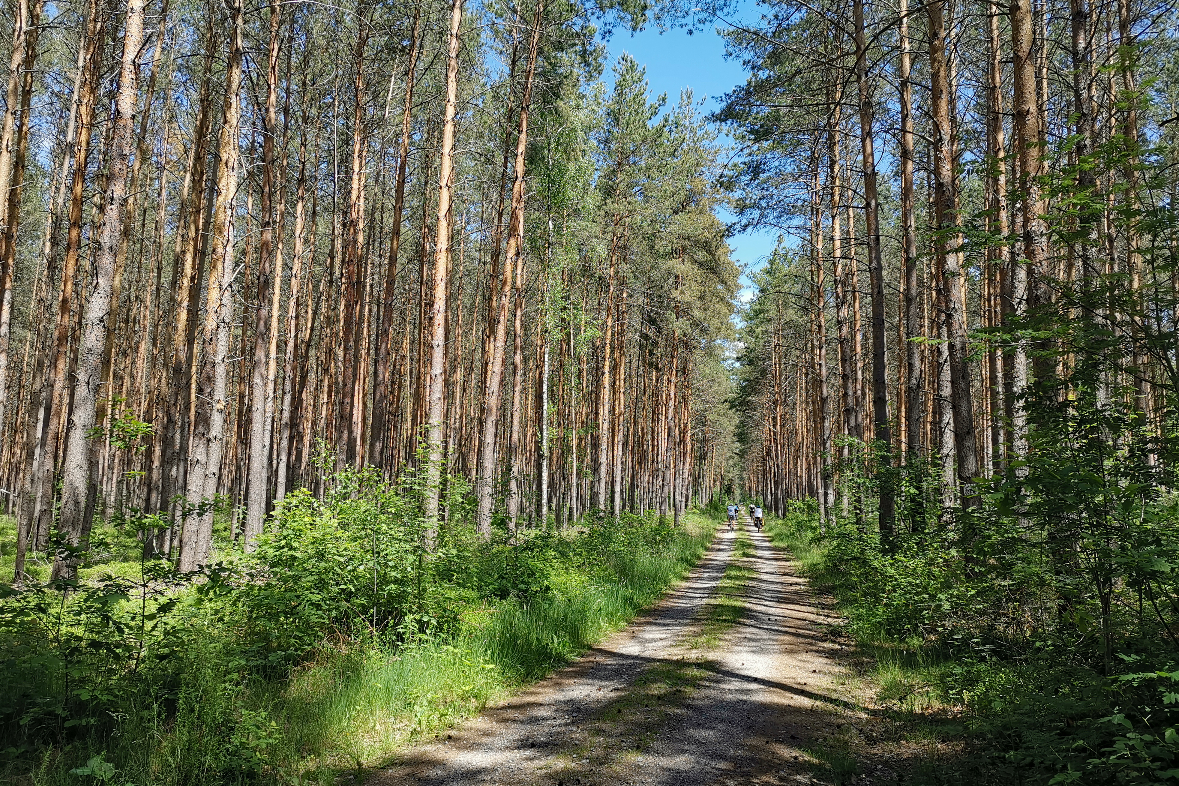 Laußnitzer Heide (Laußnitz, Saxony, Germany)